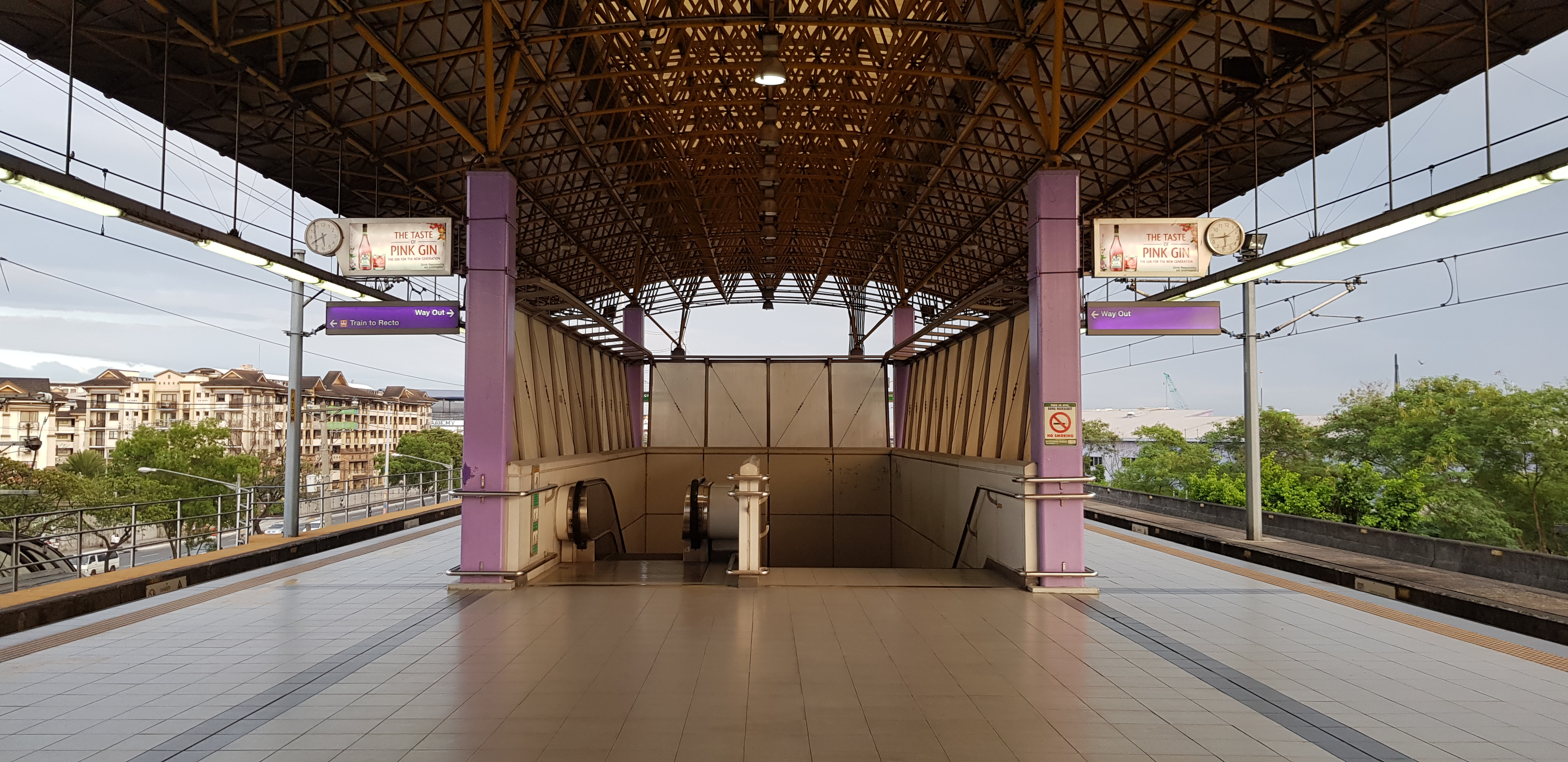 Line 2 Santolan Station Platform